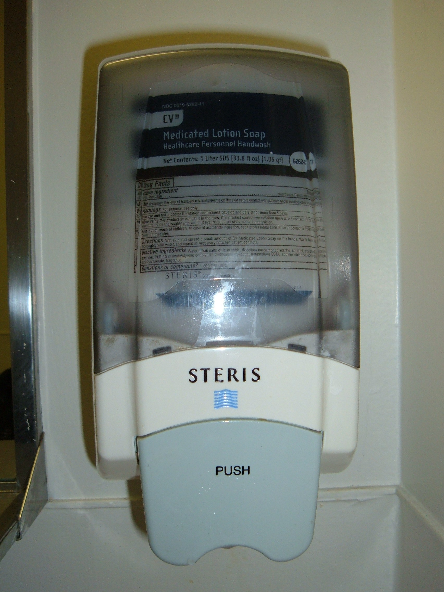 Wall-mounted medicated lotion soap dispenser found in a hospital in Daly City, California in an ICU room.